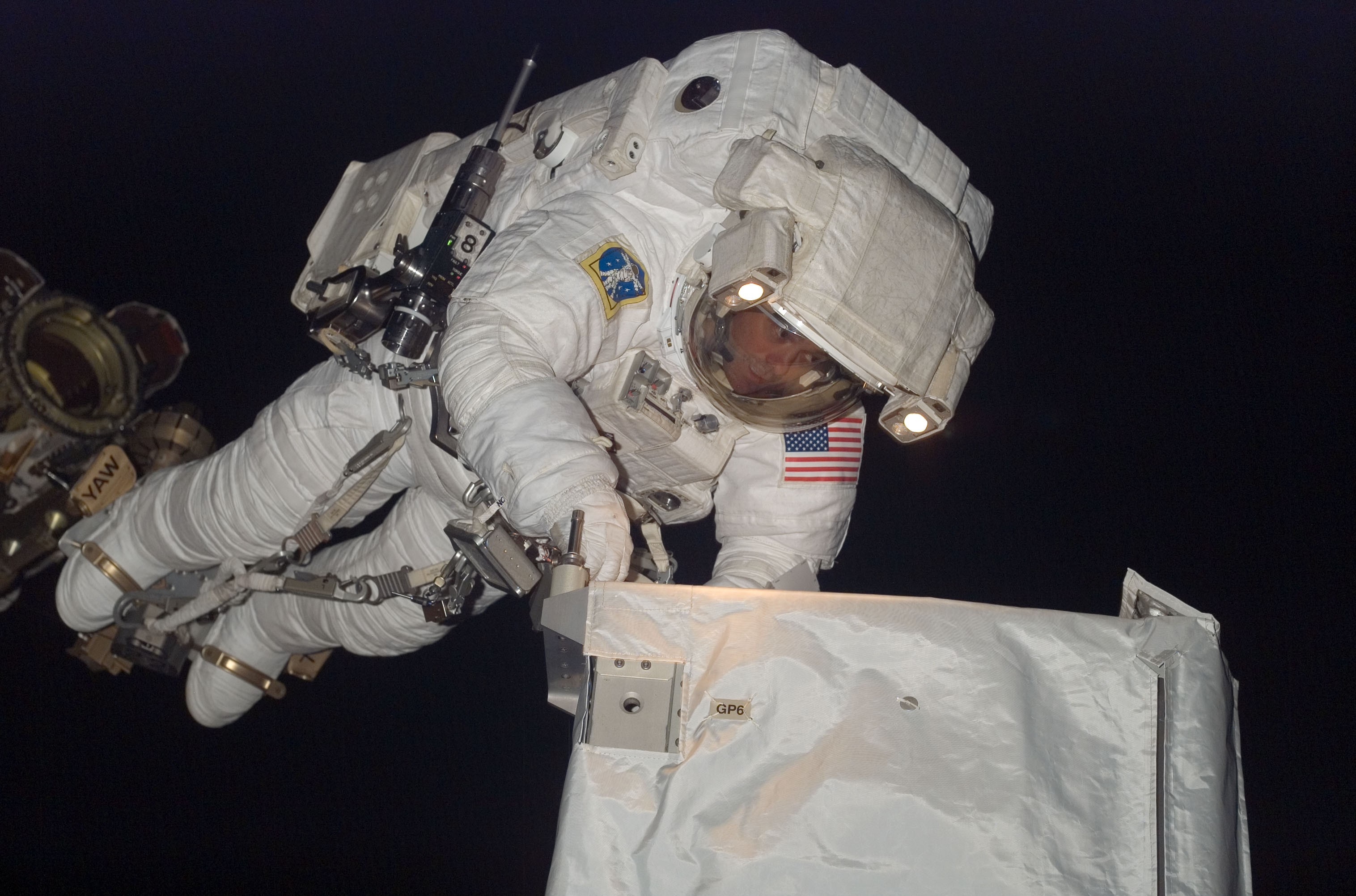 Anchored to a Canadarm2 mobile foot restraint, astronaut Ron Garan, STS-124 mission specialist, participates in the mission's third scheduled session of extravehicular activity (EVA) as construction and maintenance continue on the International Space Station. During the six-hour, 33-minute spacewalk, Garan and astronaut Mike Fossum (out of frame), mission specialist, exchanged a depleted Nitrogen Tank Assembly for a new one, removed thermal covers and launch locks from the Kibo laboratory, reinstalled a repaired television camera onto the space station's left P1 truss, and retrieved samples of a dust-like substance from the left Solar Alpha Rotary Joint for analysis by experts on the ground.